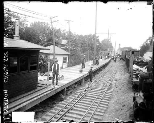 View of Birchwood elevated train station, part of the Evanston Elevated rail line, at Birchwood and Chase Avenues in the Rogers Park community area of Chicago, Illinois. The station was renamed the Jarvis Station and the street names changed to Ashland and Jarvis Streets.